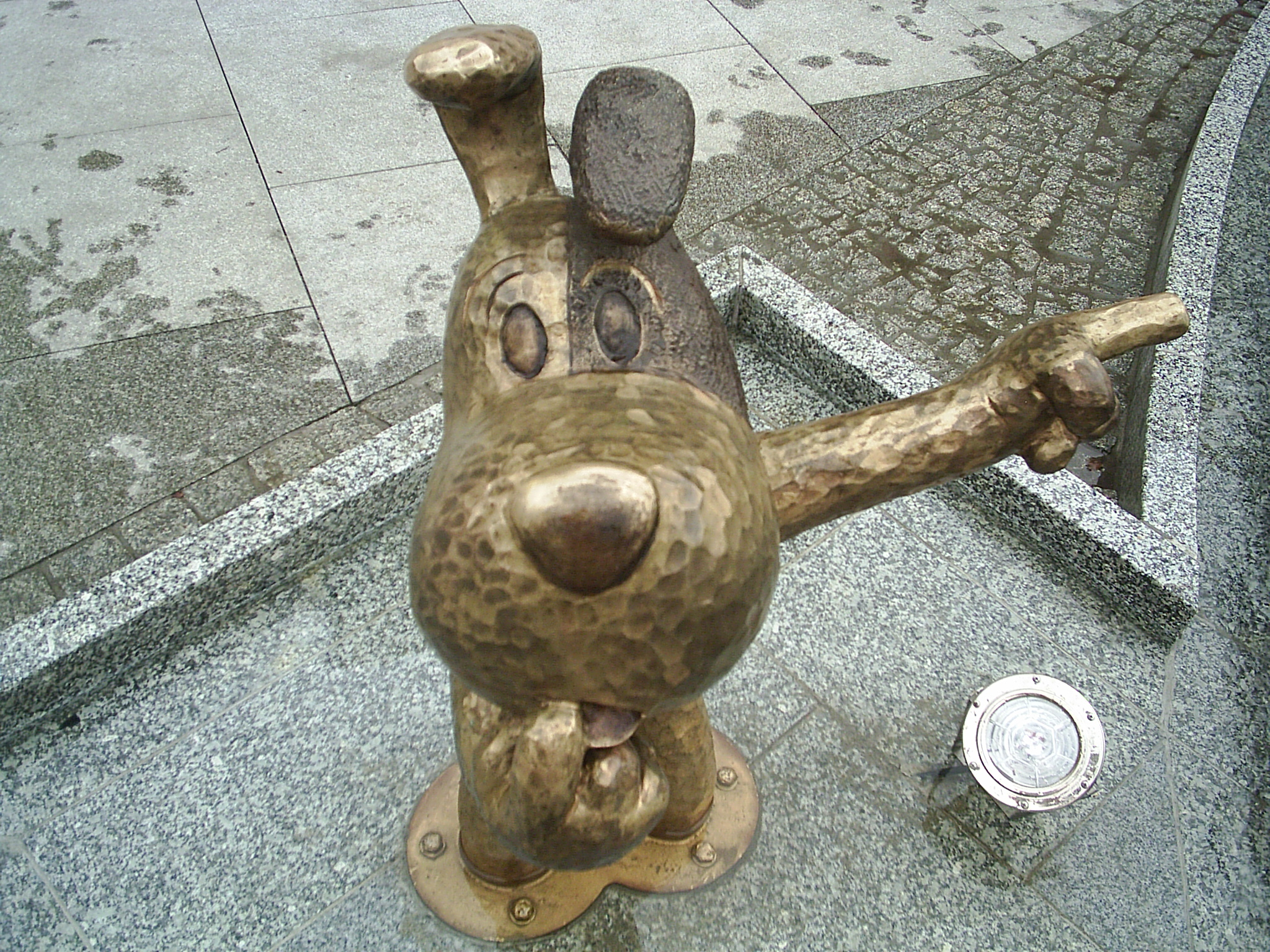 A statue of Reksio, a famous cartoon character, in Bielsko-Biała on 11 Listopada street